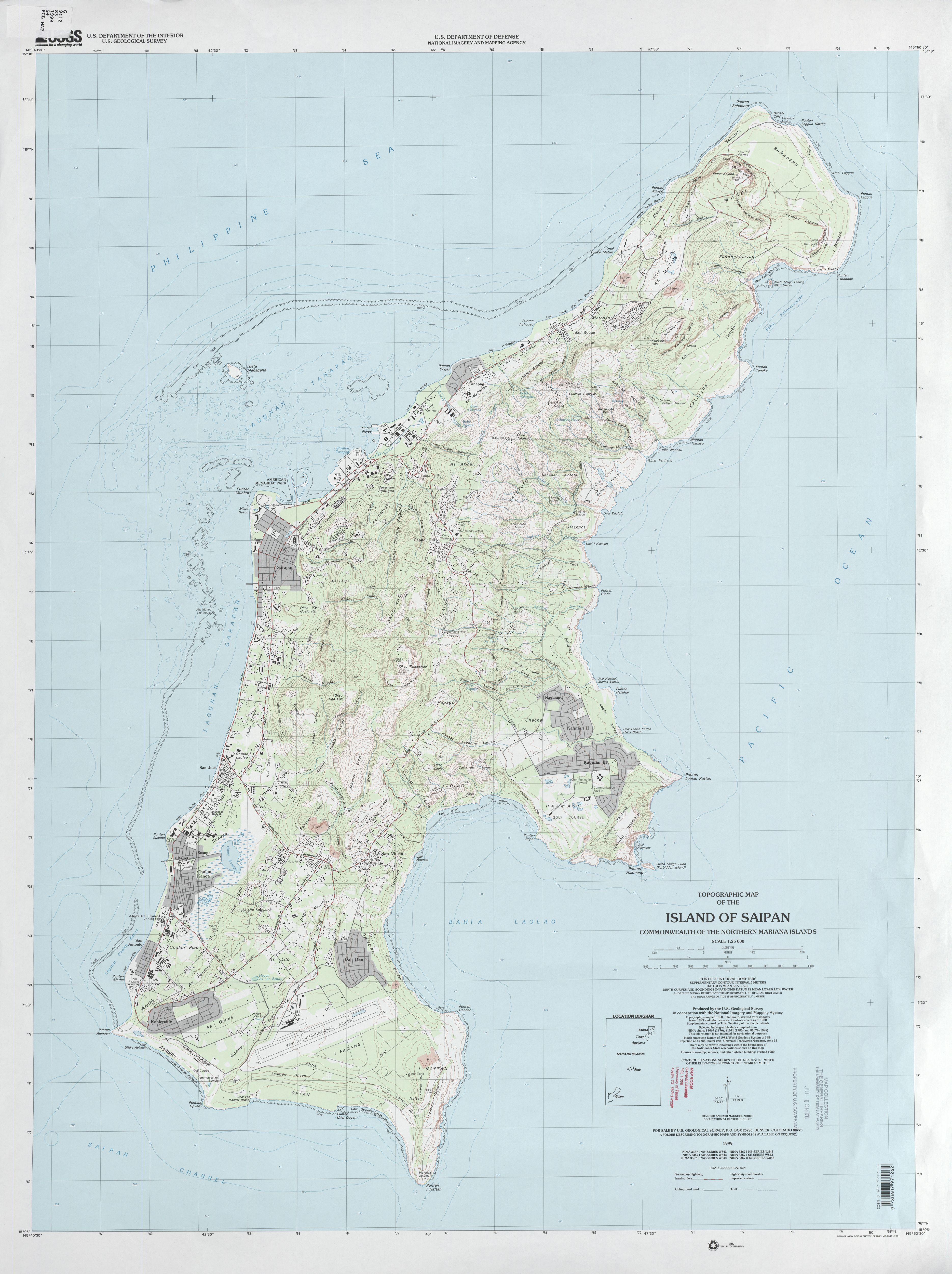 1999 USGS topographic map of Saipan Island (Northern Mariana Islands)